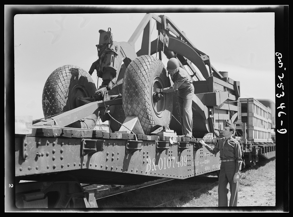 Title: Holabird ordnance depot, Baltimore, Maryland. An officer checking the air pressure of the giant tires on LeTourneau road scrapers which are being sent overseas. Pressure must be ten pounds above normal load to keep tires in best condition during the journey